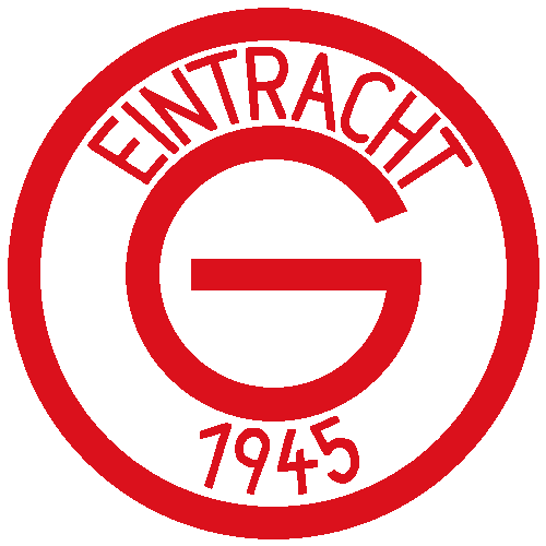 Official club logo from Eintracht Garstedt (1945 to 1972)